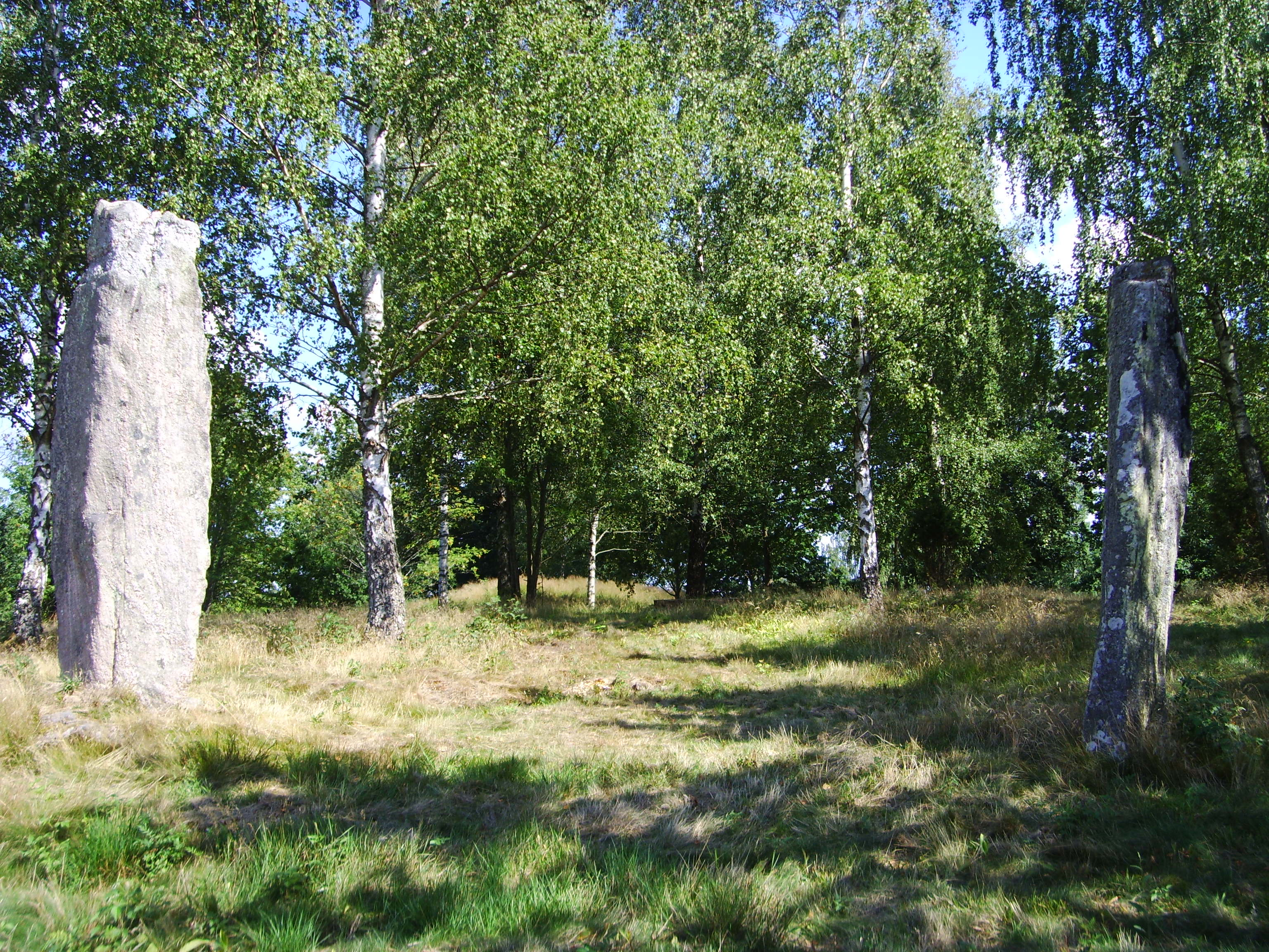 This grave-field ("Nycklabacken") contains about 200 ancient monuments. Here are 18 barrows, 149 round and one triangular stone-setting, 2 triangular graves with curved sides, and about 30 uprights stones. The field was mentioned in a travel book as early as 1791. In 1875 and in the 1950´s, nine graves were excavated in the southwestern part of the field. Along with burnt bones, there were some pottery sherds. In one grave there was also a bronze ring and in the another a piece of flint. The excavation proved that the dead had been cremated before burial. The finds date the field to latter part of the Iron Age. It served as a burial ground of a neighbouring farm.